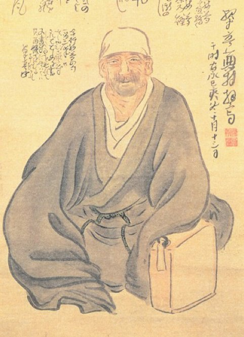 Portrait of Basho